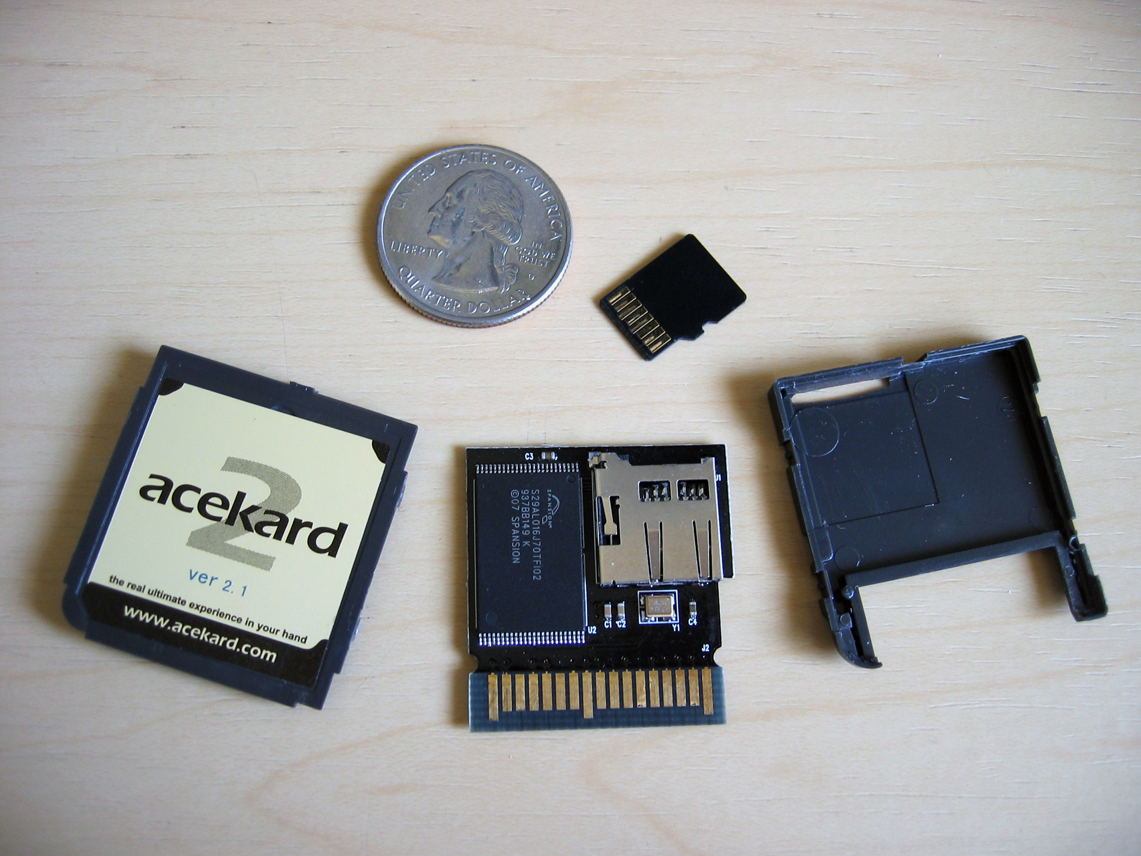 The internal circuitry of an Acekard 2.1 flash card for the Nintendo DS